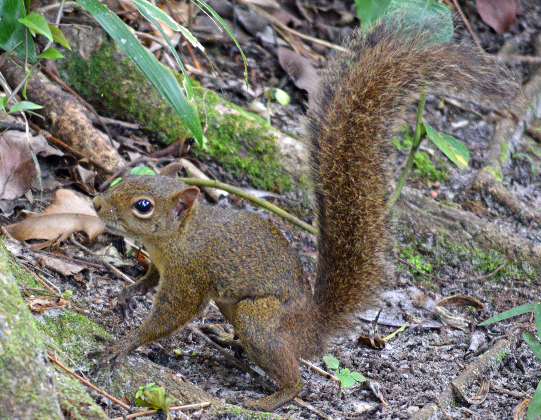 Brazilian squirrel (Caxinguele) on the ground